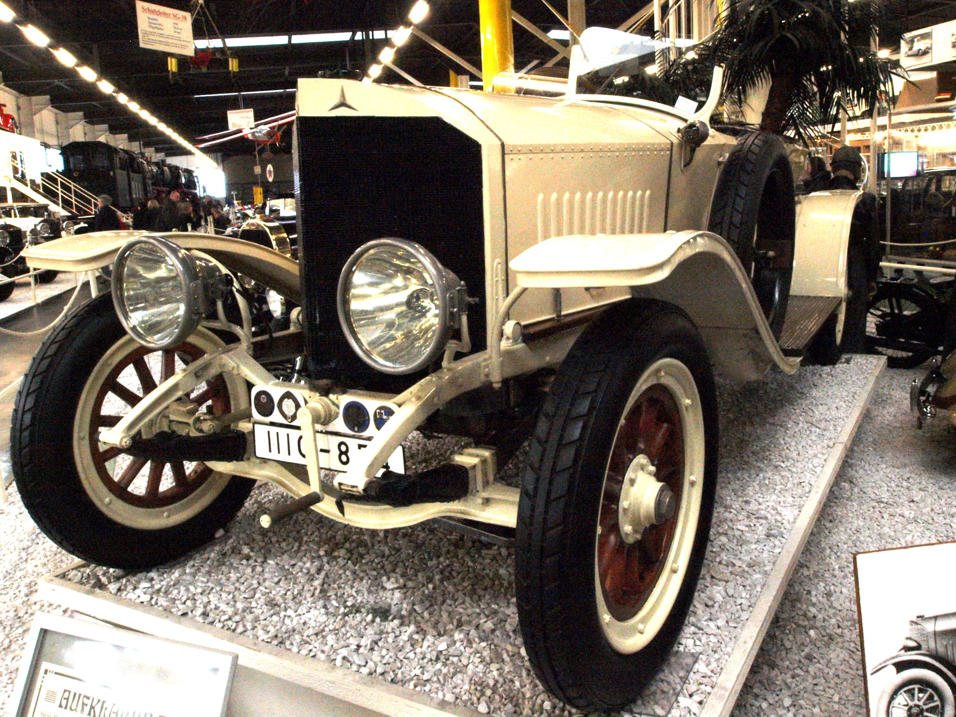 Mercedes 22/50 hp 1914